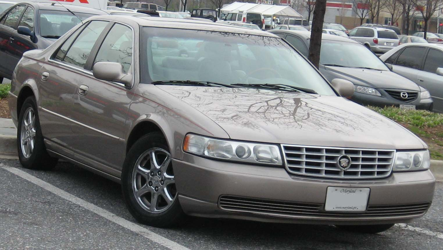 1998-2004 Cadillac Seville photographed in USA.